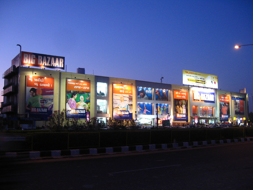 Big Bazaar, Sarkhej Gandhinagar Highway, Ahmedabad, Gujarat, India